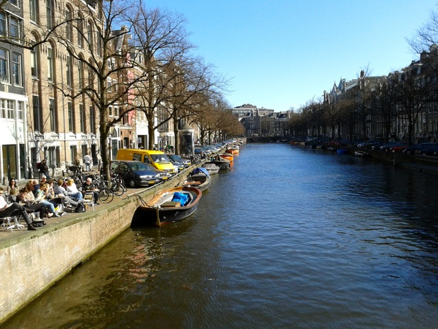 Amsterdam Herengracht; photo taken from Koningssluis bridge.